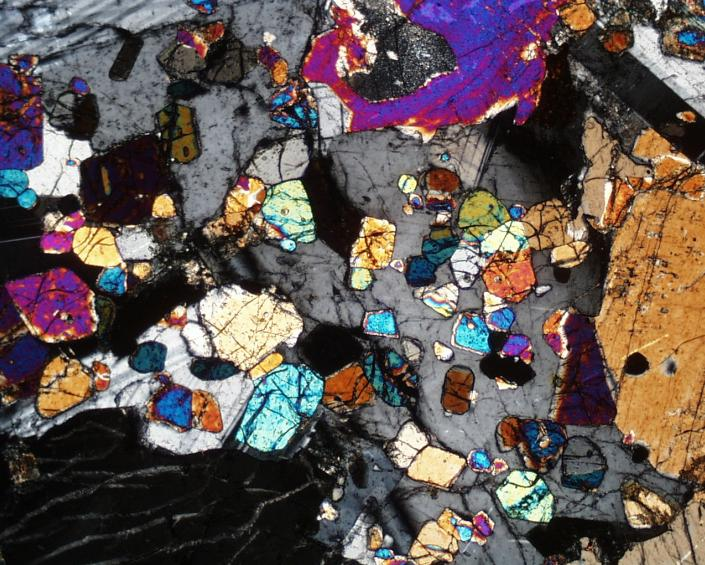 A photomicrograph of a thin section from the Palisades Sill. Magnification is 40x.